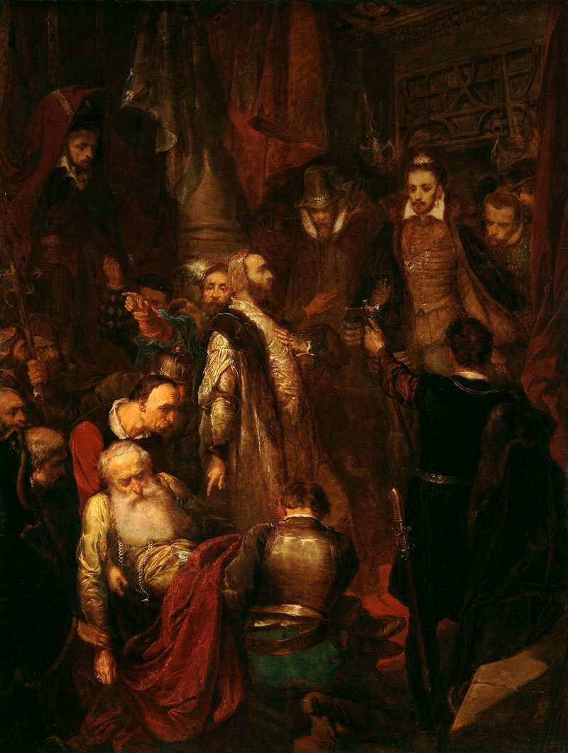 Killing of Wapowski during the coronation of Henry of Valois